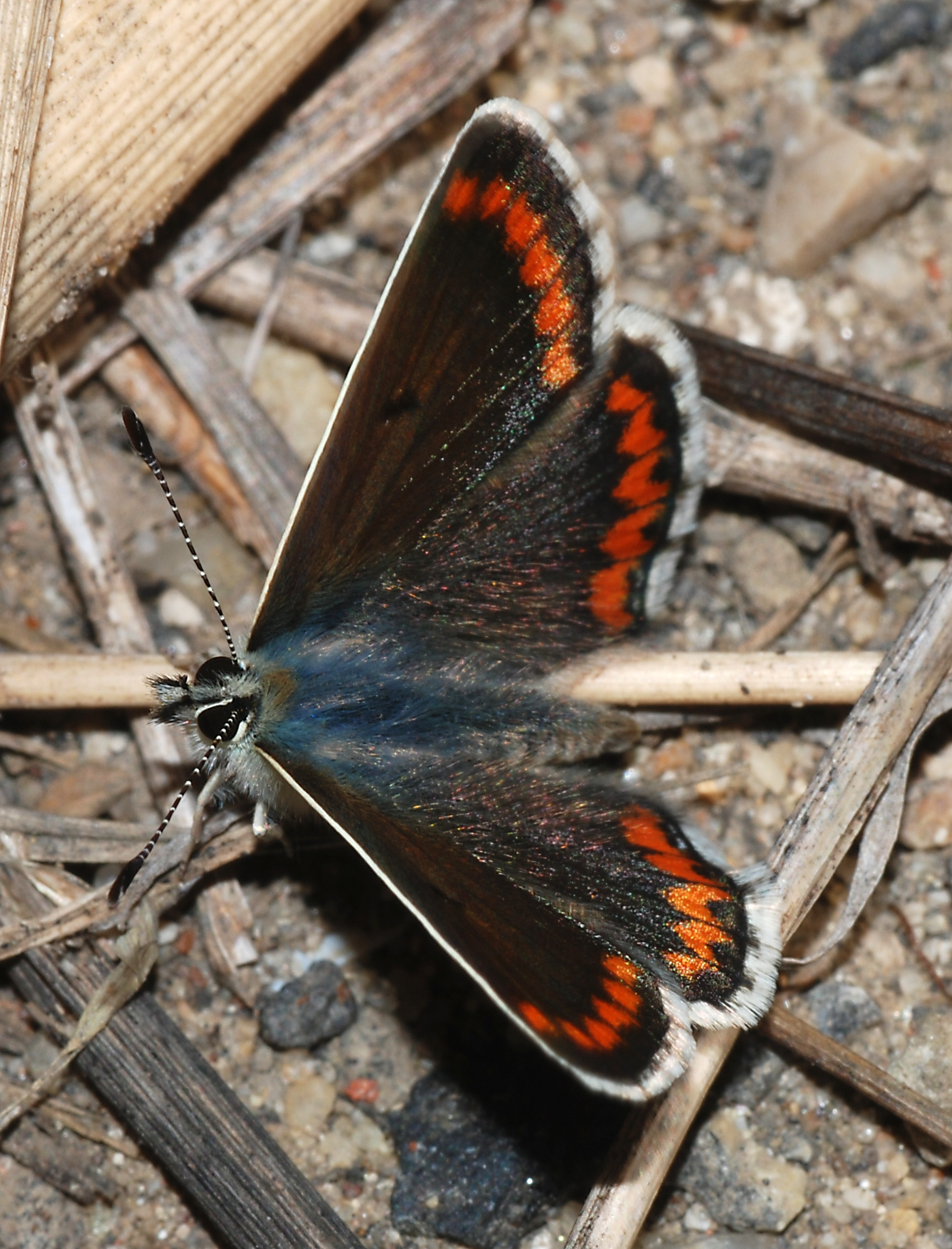 A female butterfly of the Lycaenidae family: Aricia agestis)